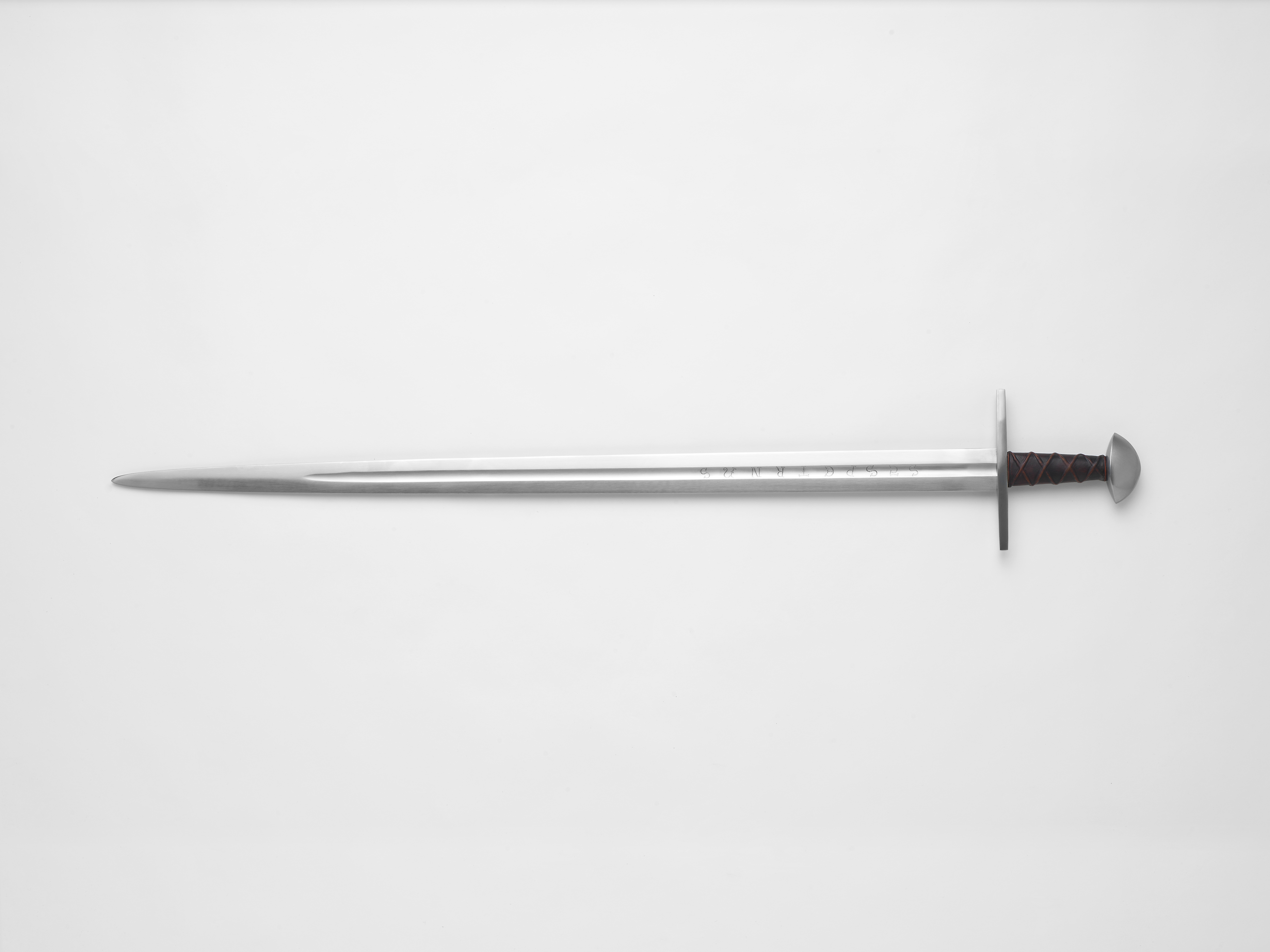 During excavations at Søborg castle a number of swords have been unearthed. Many of these are preserved in the National Museum in Copenhagen. One of them (inventory number D 8801) is an especially fine example of a long bladed knightly sword from the high medieval period. The original sword is featured as XI.3 in Oakeshott's "Records of the Medieval Sword." Albion's Museum Line recreation of this sword from Peter's detailed documentation is exact in every detail to the original sword.